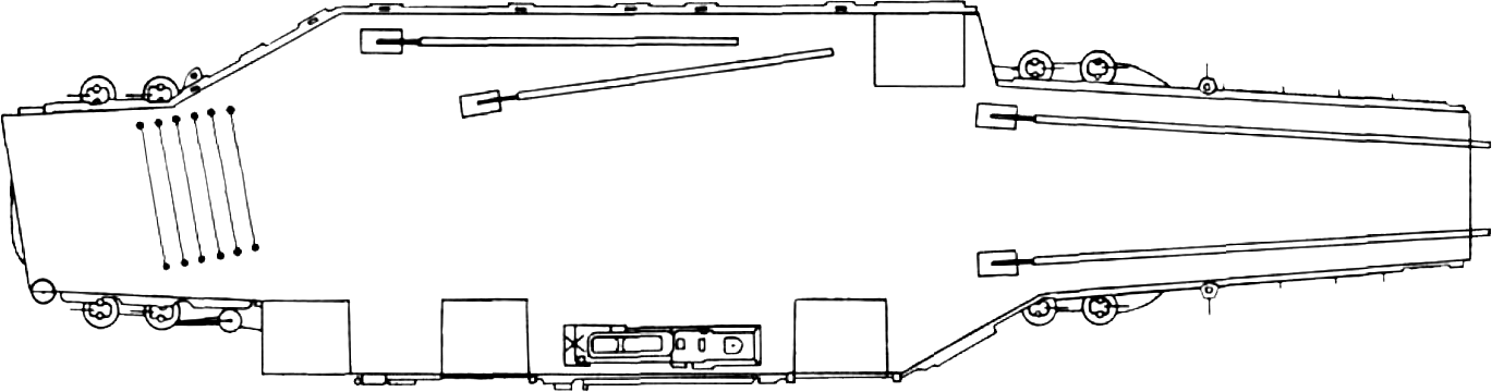 Deck plan of a U.S. Navy Forrestal-class aircraft carrier when commissioned.